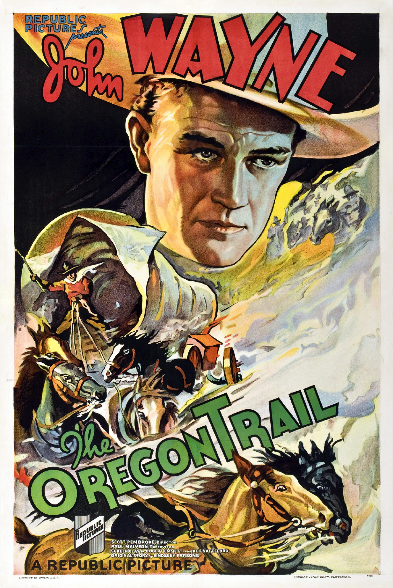 Poster for the 1936 film The Oregon Trail. The item has no copyright marks on it as can be seen at links and original upload. At bottom left is Country of origin USA. At bottom right is Morgan Litho Corp. Cleveland, O.-they printed the poster-and 7985.